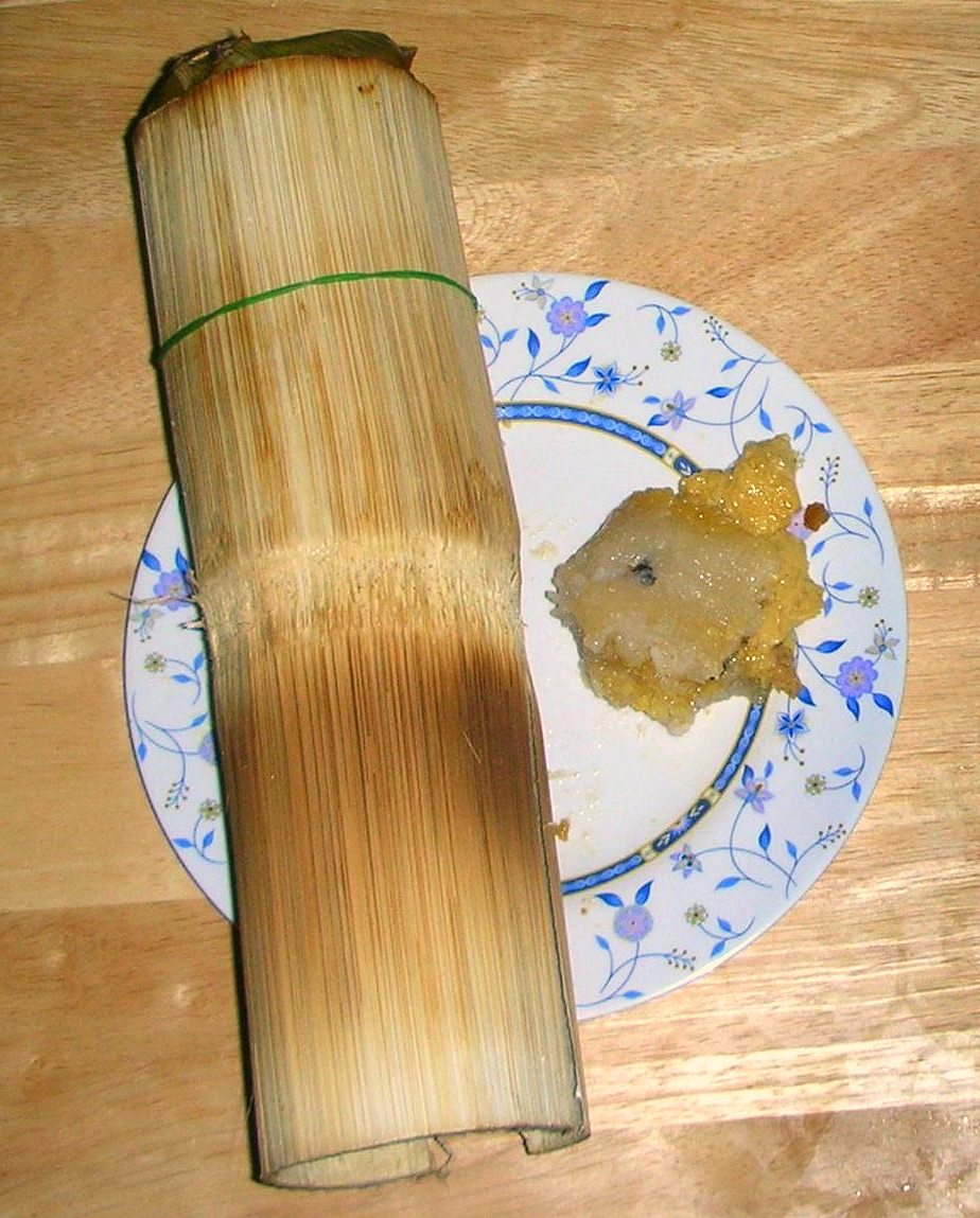 Khao lam (ข้าวหลาม), sticky rice with sugar and coconut cream cooked in a specially-prepared bamboo section